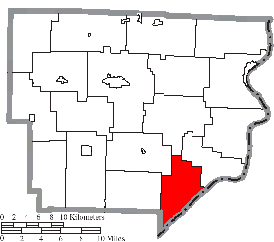 Map of the municipal and township boundaries of Monroe County, Ohio, United States, as of the 2000 census, with the location of Jackson Township highlighted. Township borders are shown only in unincorporated areas in order to differentiate incorporated and unincorporated areas more clearly.